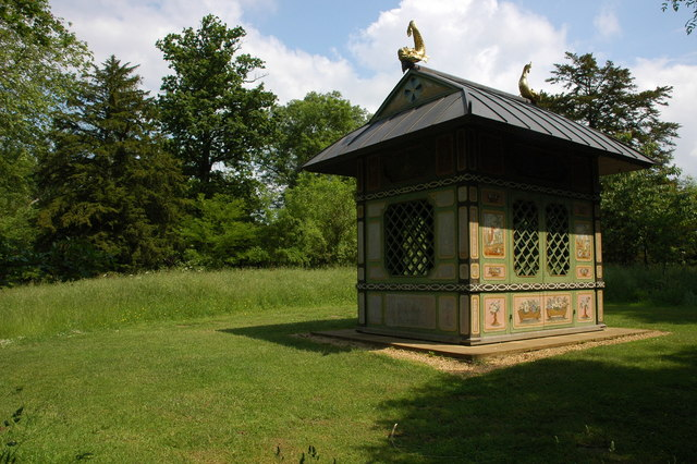 The Chinese House, Stowe